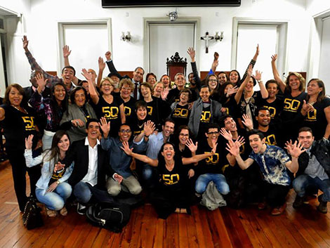 Membros e ex-membros do GD comemoram os 50 anos do grupo em 2016. Foto: Humberto Nicoline.